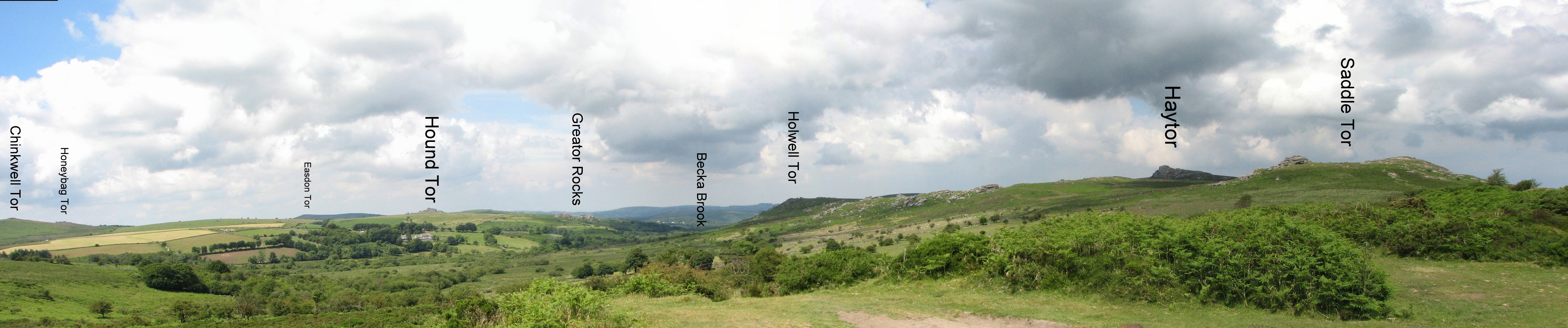 An annotated panorama of the tors visible looking north from near the head of the Becka Brook, Dartmoor, Devon, England.